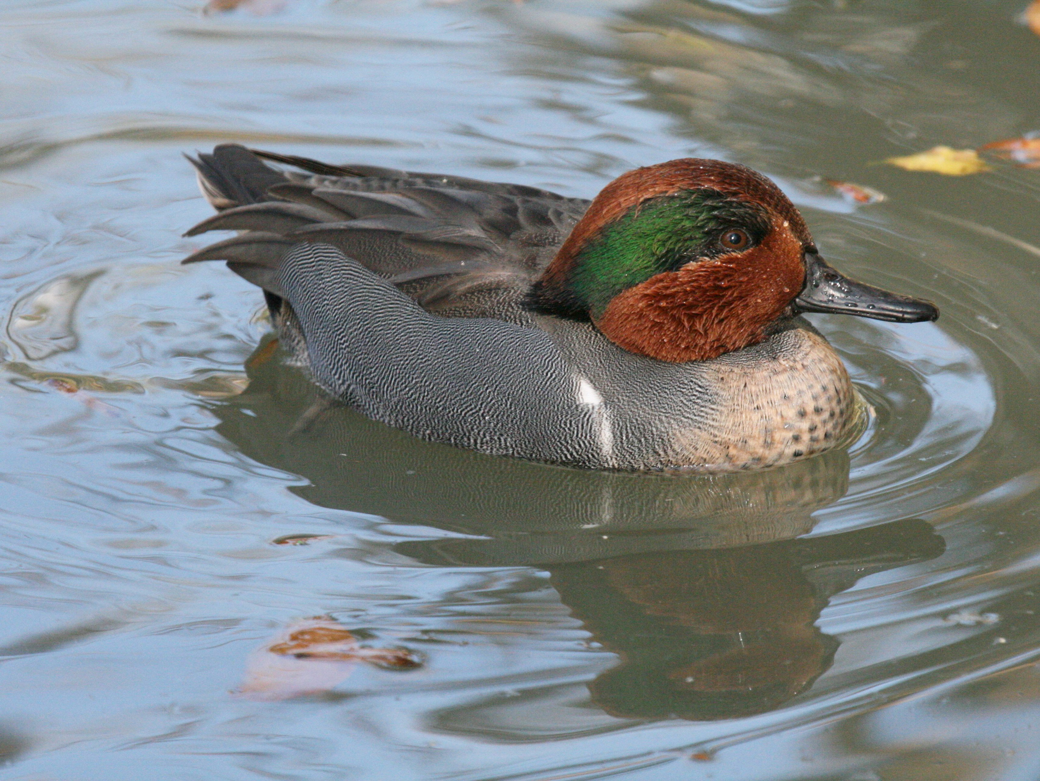 Green-winged Teal (Anas carolinensis) at Sylvan Heights Waterfowl Park in Scotland Neck, North Carolina.